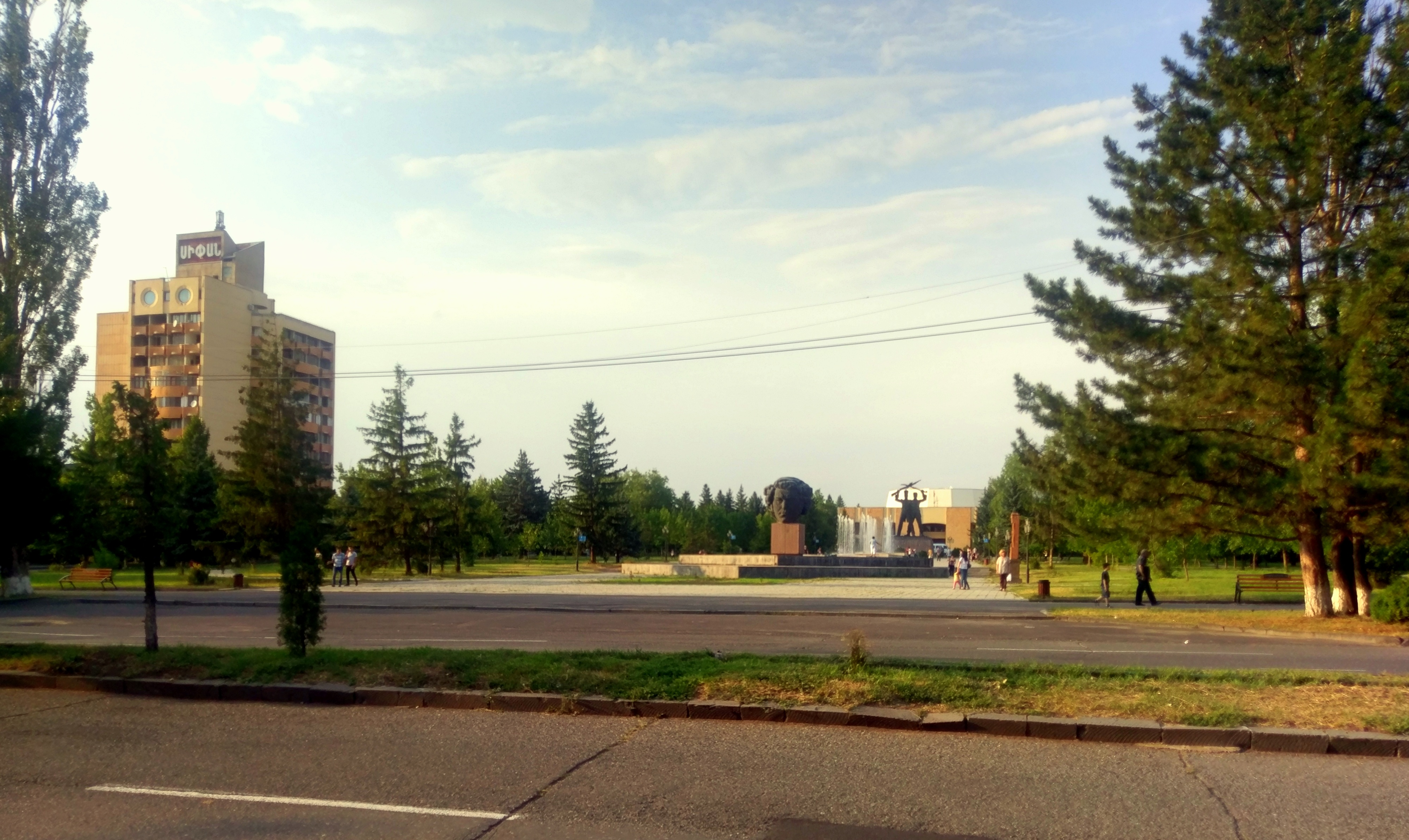 Abovyan town centre, Yerevan.